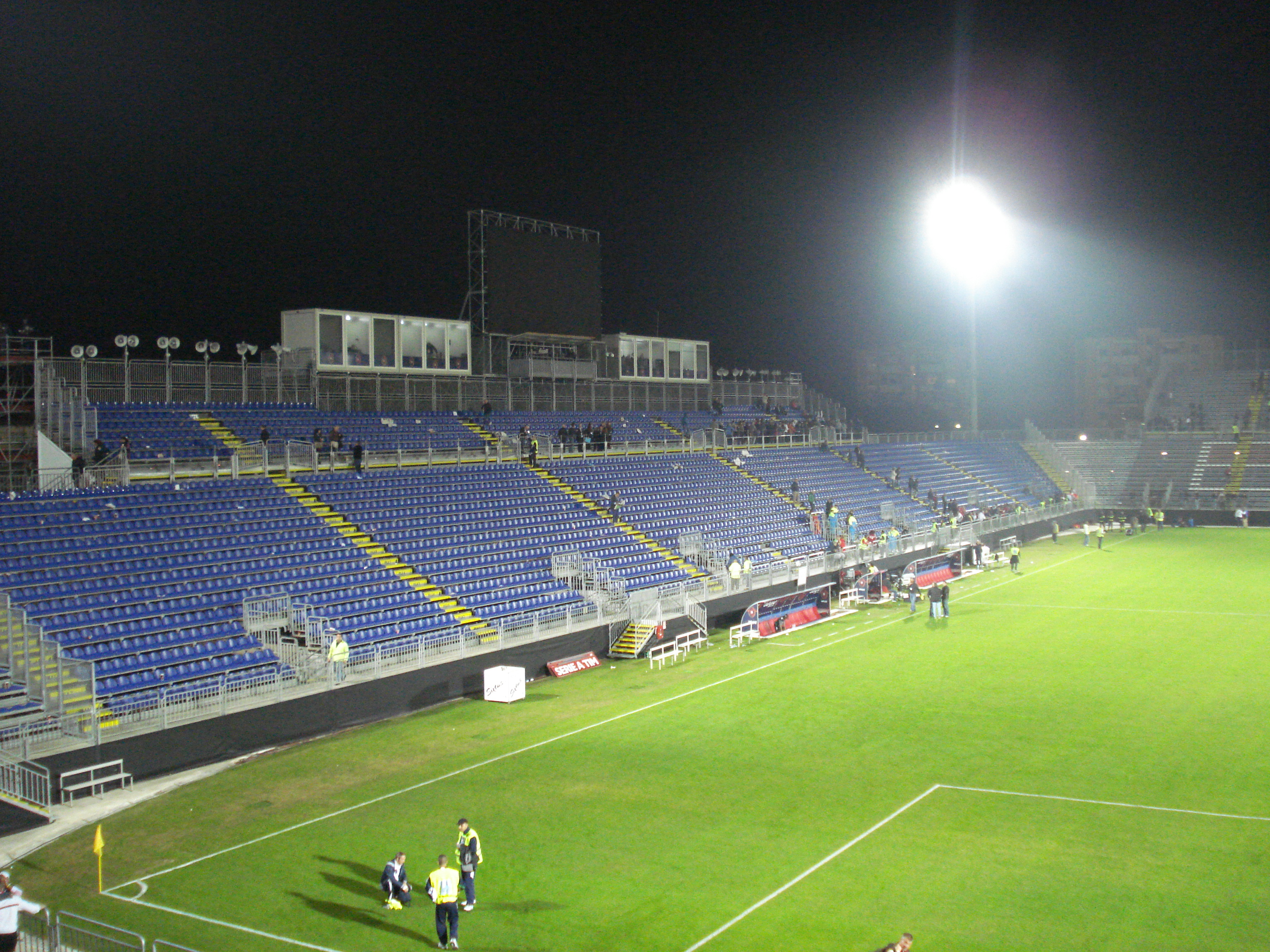 Stand of Stadio Is Arenas in Quartu Sant'Elena (Cagliari)